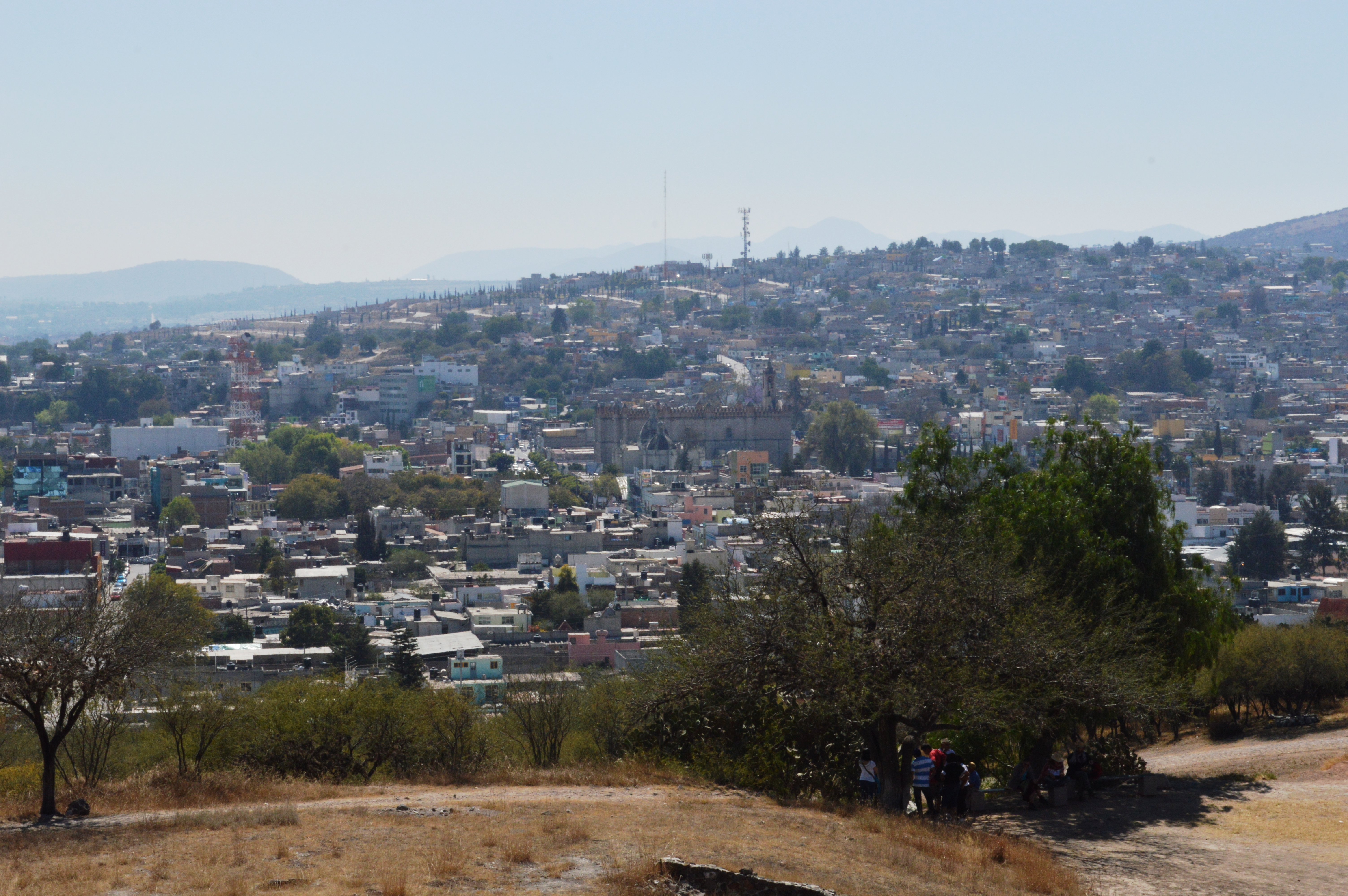 Looking towards the modern town of Tula from Pyramid C at the Tula archeological site in Hidalgo, Mexico